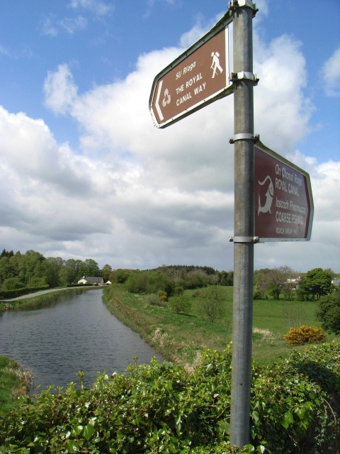 Royal Canal at Ballasport Bridge, Co. Meath The signage is a bit confusing - you'd have thought the walking and fishing were in the same direction.